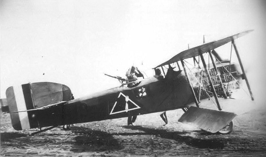 96th Aero Squadron - Breguet 14B2